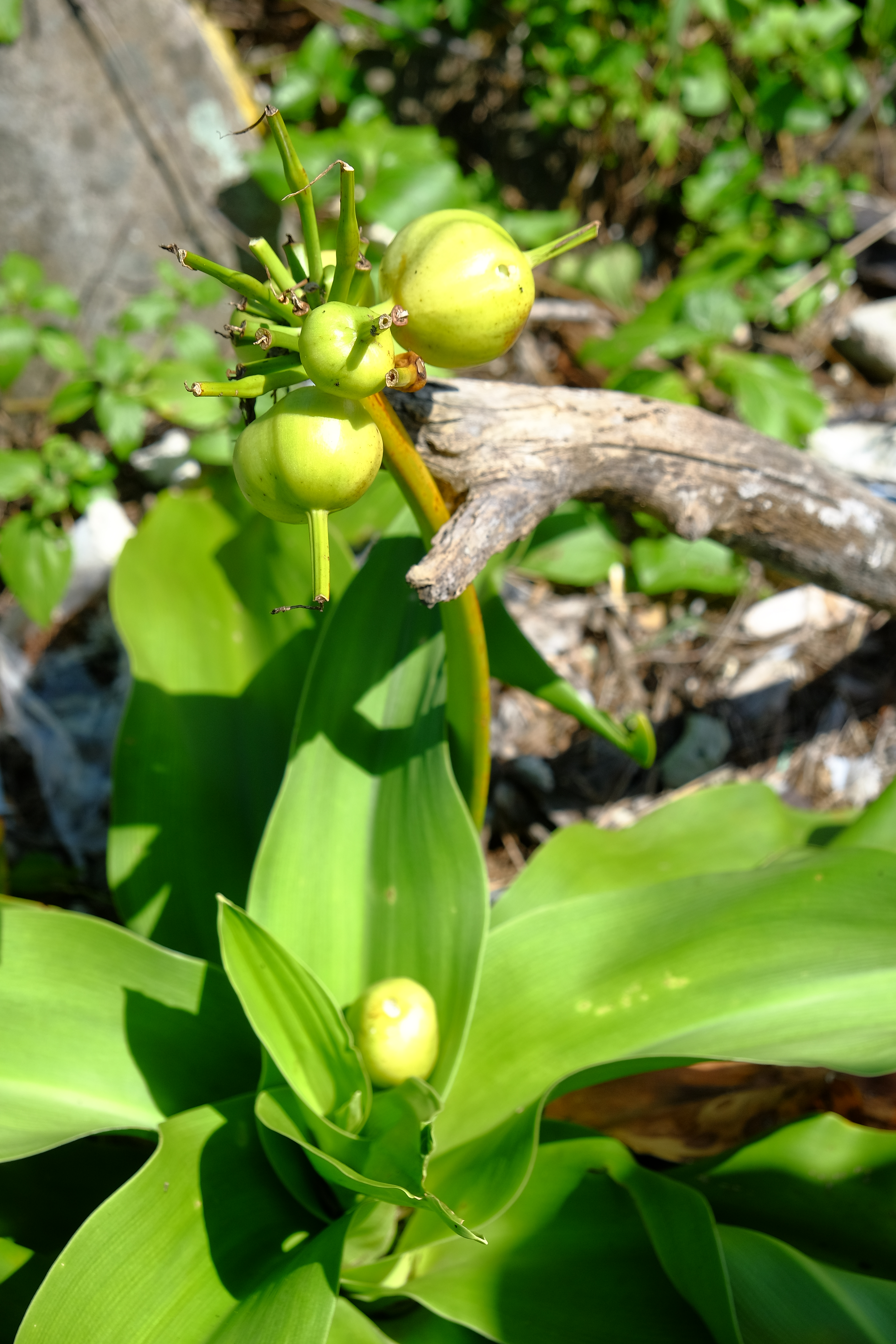 Crinum asiaticum